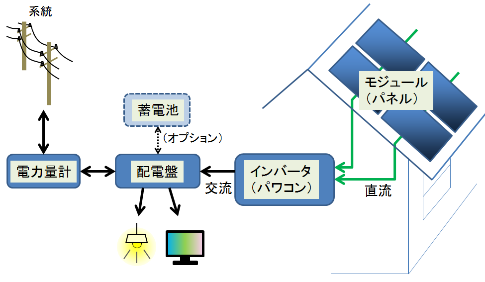 Simplified schematic diagram of a residential PV system (Original creation, public-domain) Reference(for example): Solar Cells and their Applications Second Edition, Lewis Fraas, Larry Partain, Wiley, 2010, ISBN 978-0-470-44633-1 , Figure 10.2